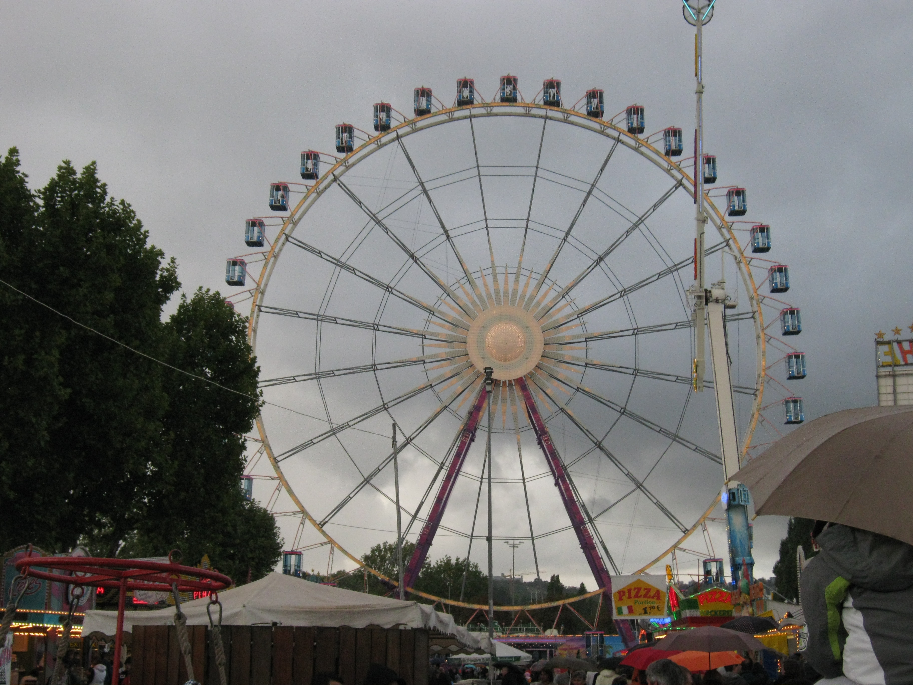 Ferris wheel on Cannstatt Funfair 2010